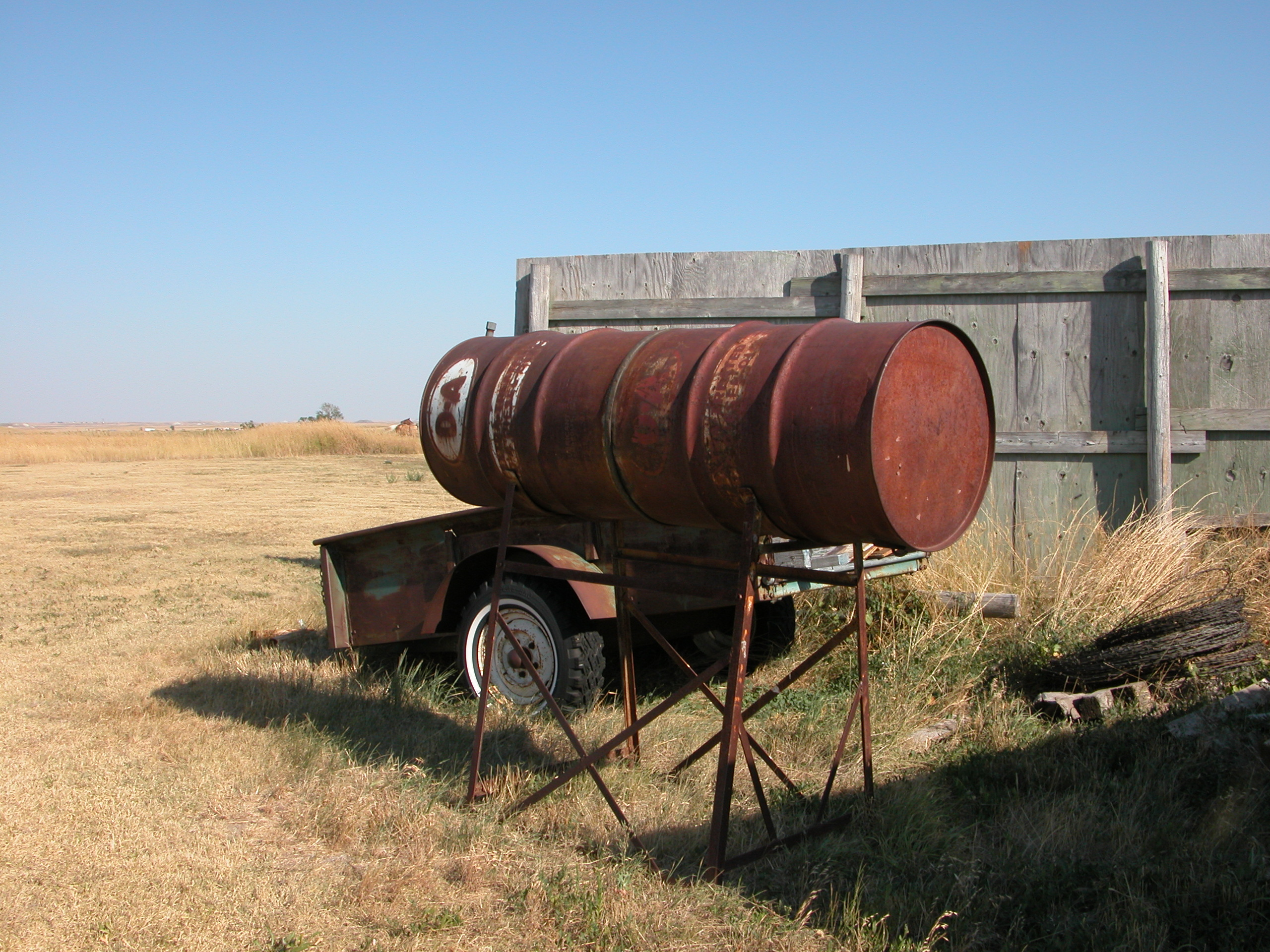 Rusty farm equipment in the vicinity of Badlands National Park in South Dakota.